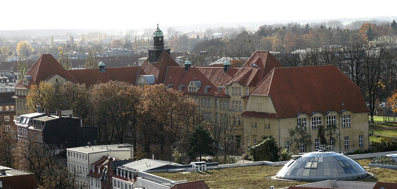 Building of school "Fridericianum" (former Lyzeum) in Schwerin, Germany, seen from cathedral